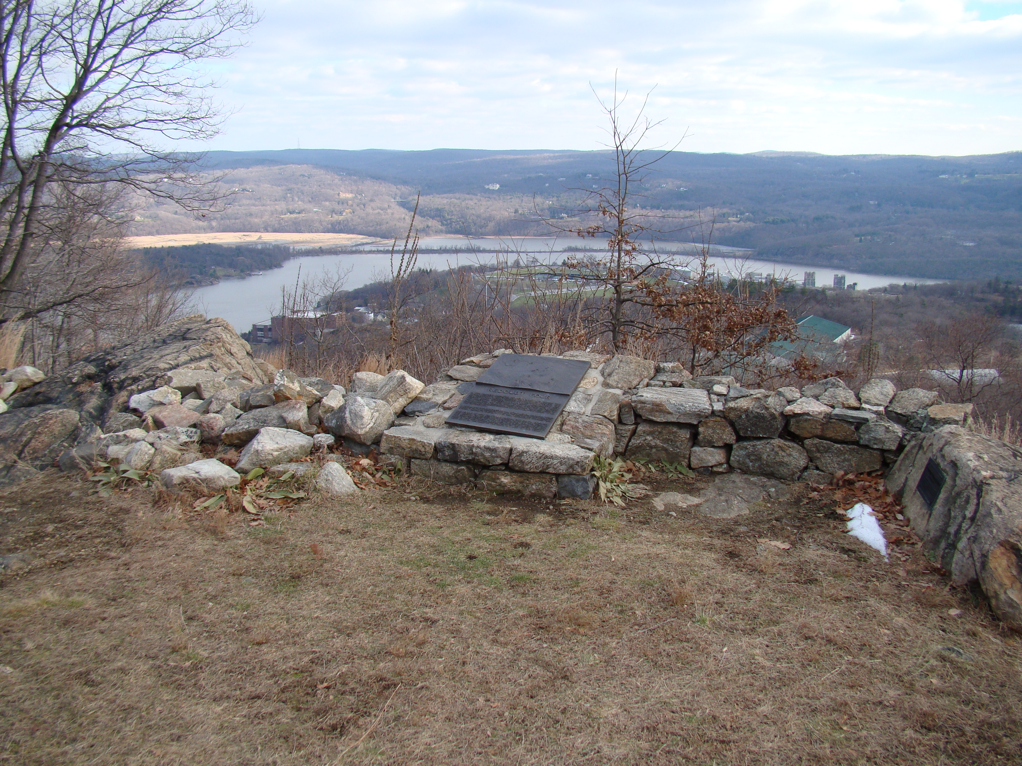 View of the Hudson River and the United States Military Academy at West Point, NY from atop "Rocky Hill" inside a Revolutionary War defensive fortification known as "Redoubt Four"